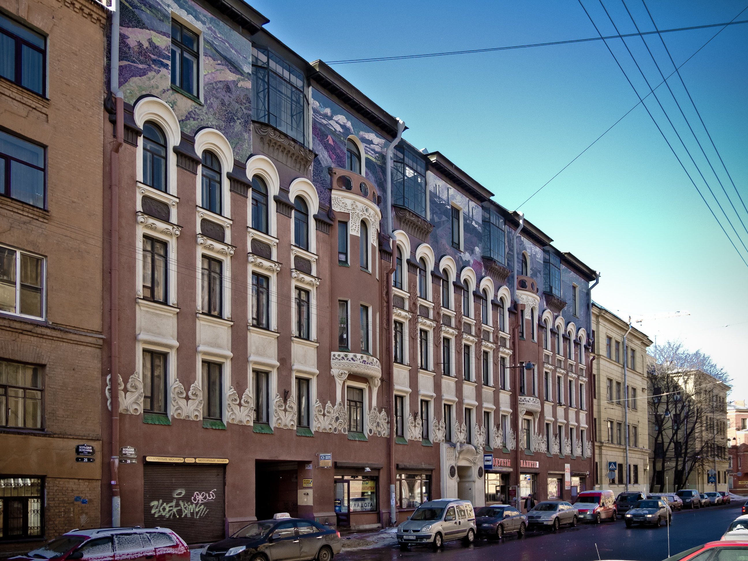 Leuchtenberg rent house in Saint Petersburg